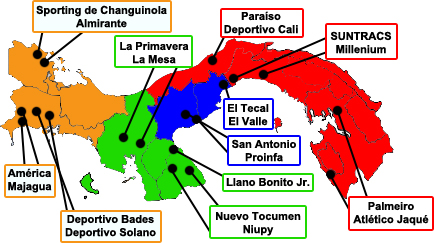 Distribution map of teams in Copa Rommel Fernandez 2009 (Distribucion de los equipos en la Copa Rommel Fernandez 2009)